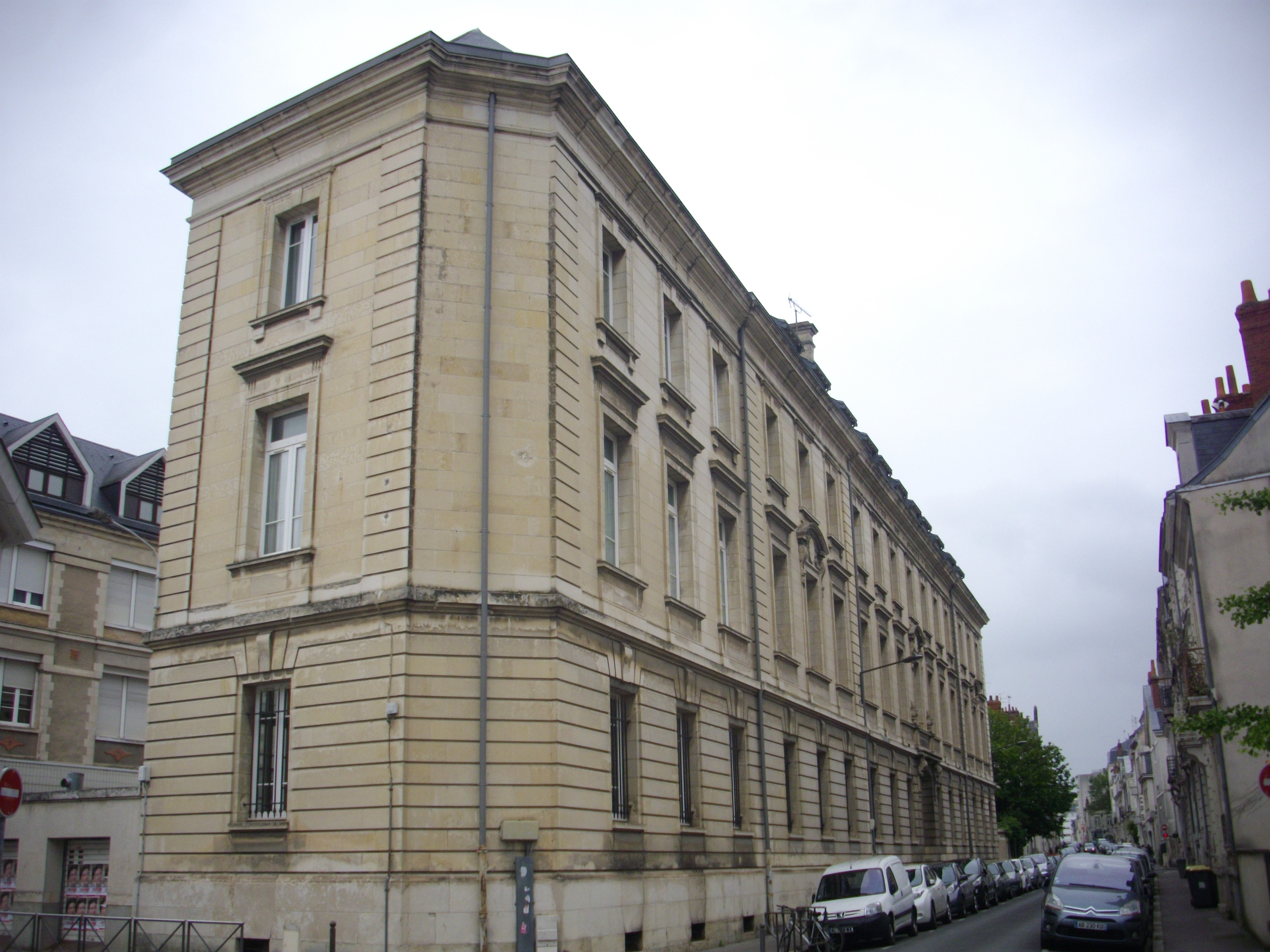 Balzac lycée, corner of Pinaigirer and Origet streets, in Tours (Indre-et-Loire, France)